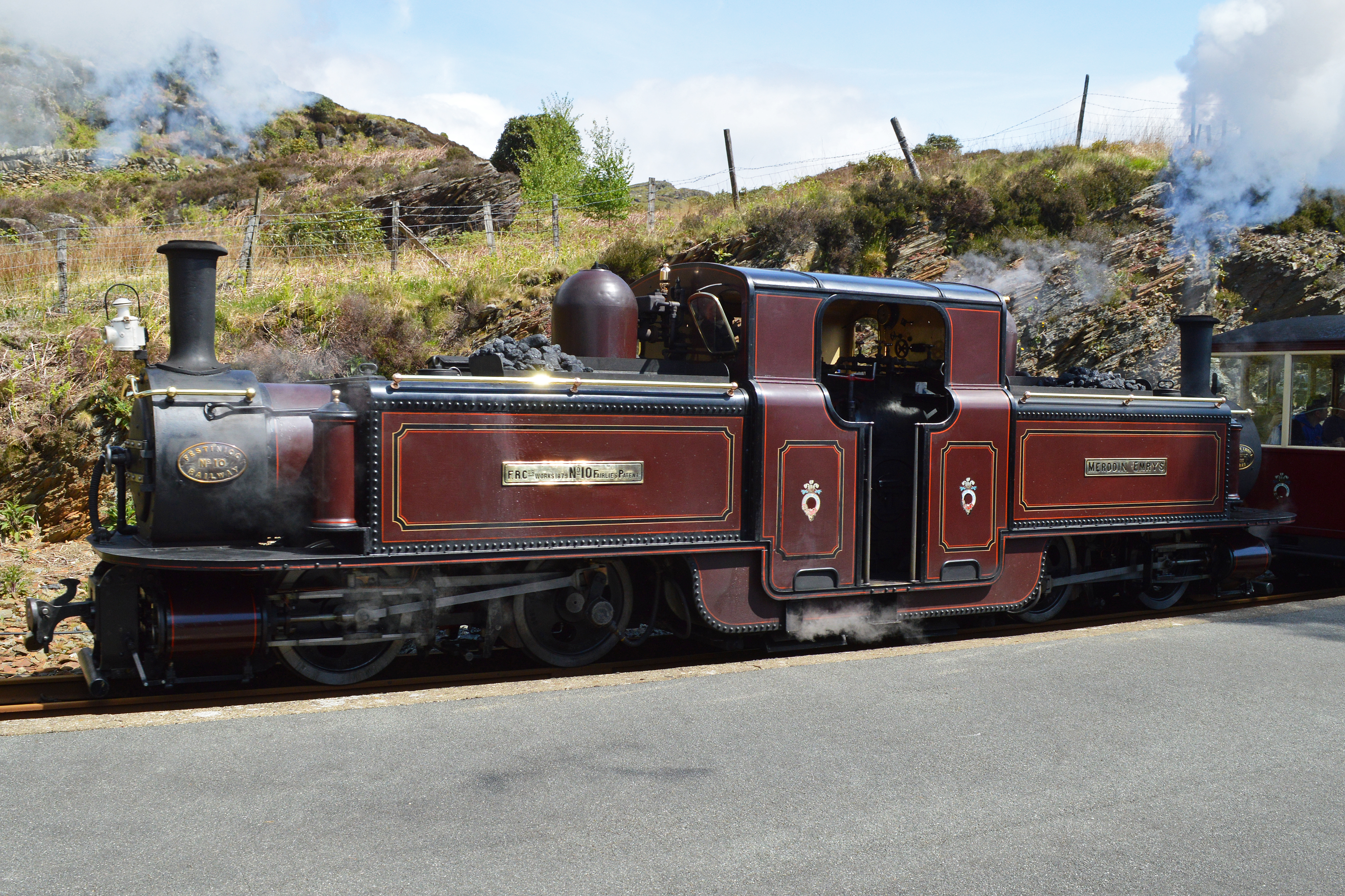 Built in 1879, 'Merddin Emrys' is one of only two surviving original Double Fairlies. The other is 'Livingston Thompson' which has been deemed 'worn out' and is currently on display in the NRM at York. Meanwhile, 'Merddin Emrys' continues in service on it's original home, the Festiniog Railway. She in seen here heading a Blaenau Ffestiniog to Portmadoc train into Tanygrisiau station. Festiniog Railway. Wales. 28-5-2013